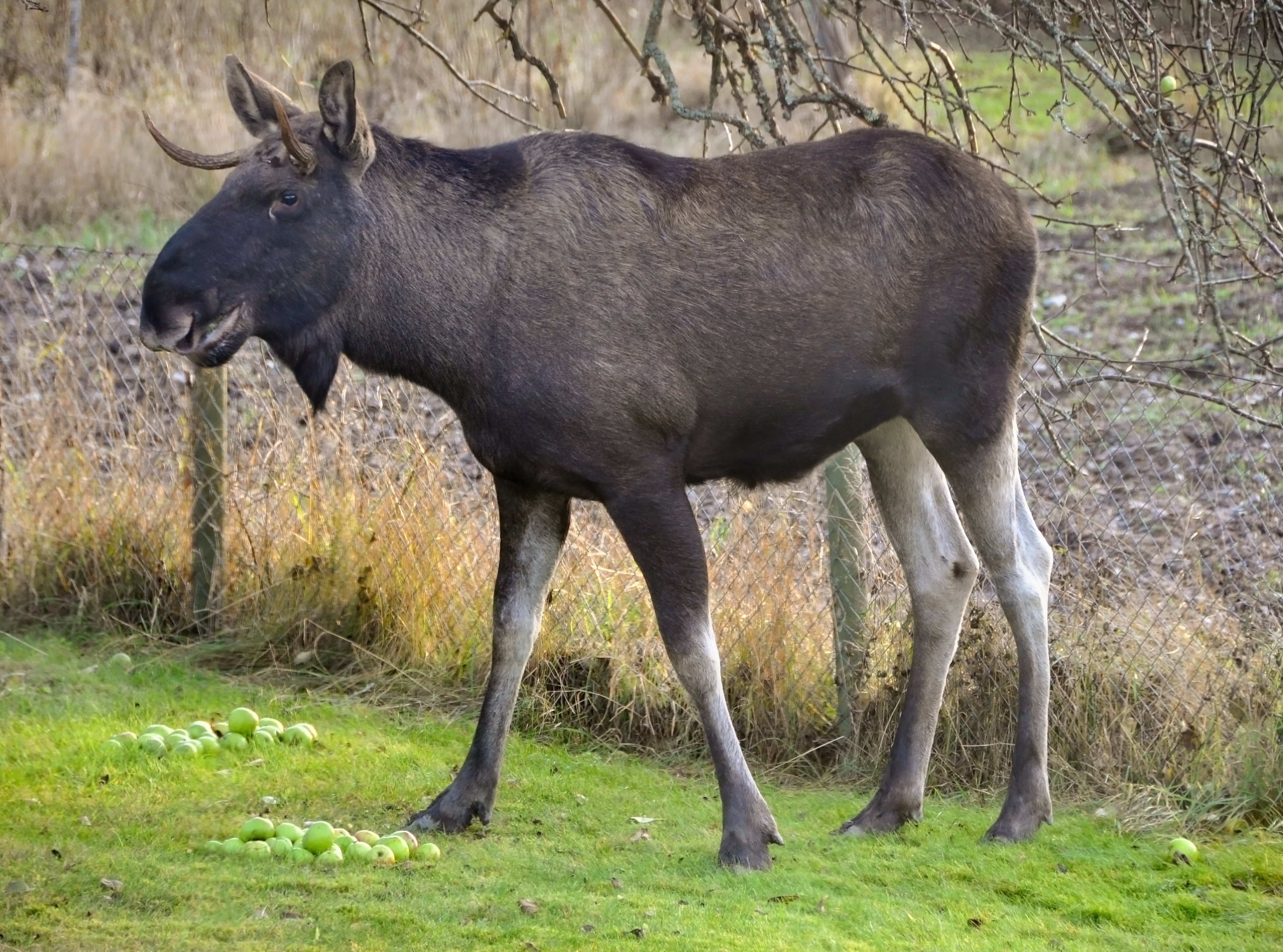 Moose eating apples in a garden in Kårboda on Ljusterö Island, Stockholm, Sweden.